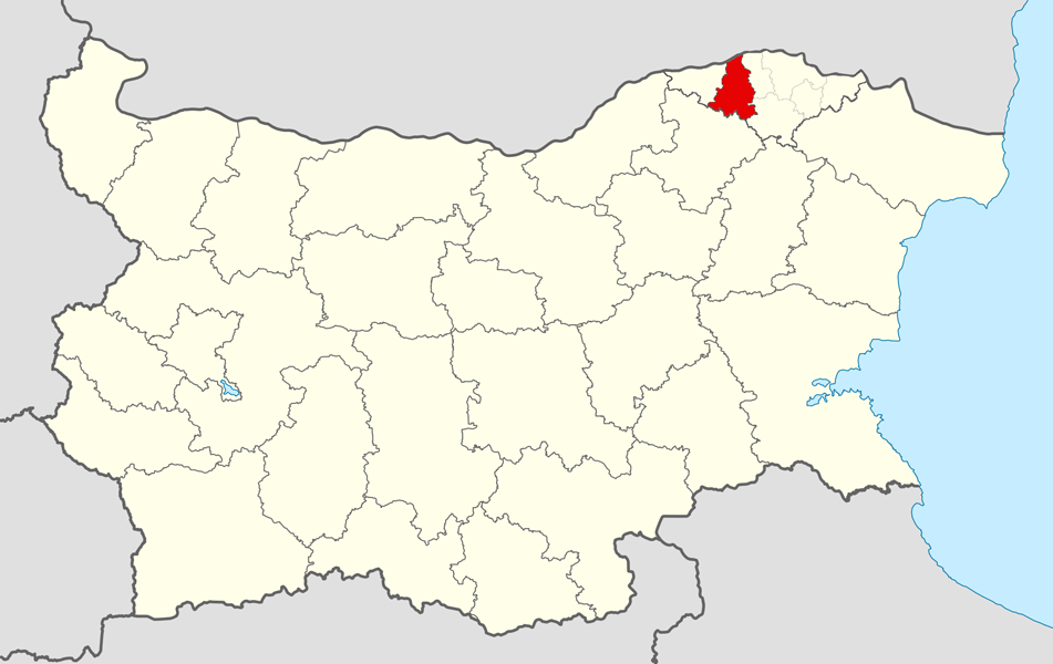 Location map of Glavinitsa Municipality within Bulgaria and Silistra Province. Equirectangular projection, N/S stretching 130 %. Geographic limits of the map: N: 44.4° N S: 41.1° N W: 22.1° E E: 28.9° E